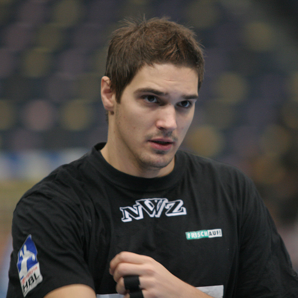 Nikola Manojlović, handball player from Frisch Auf! Göppingen, on December 27th, 2008 in the Lanxess Arena of Cologne. Prior the Bundesliga game VfL Gummersbach - Frisch Auf! Göppingen.